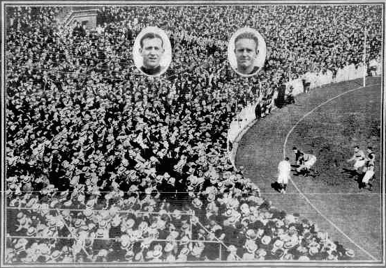 INSET ON THE LEFT IS "CON." McCARTHY, FOOTSCRAY; ON THE RIGHT, "SYD." BARKER, ESSENDON. FOOTBALL MATCH BETWEEN ESSENDON AND FOOTSCRAY, PLAYED ON THE MELBOURNE CRICKET-GROUND, IN AID OF THE DAME NELLIE MELBA APPEAL FOR LIMBLESS SOLDIERS. This match was unique in the history of the game. For the first time the premiers of the League and Association met. The League team was beaten. Forty-six thousand people attended the game, and contributed £2,800 to the appeal.